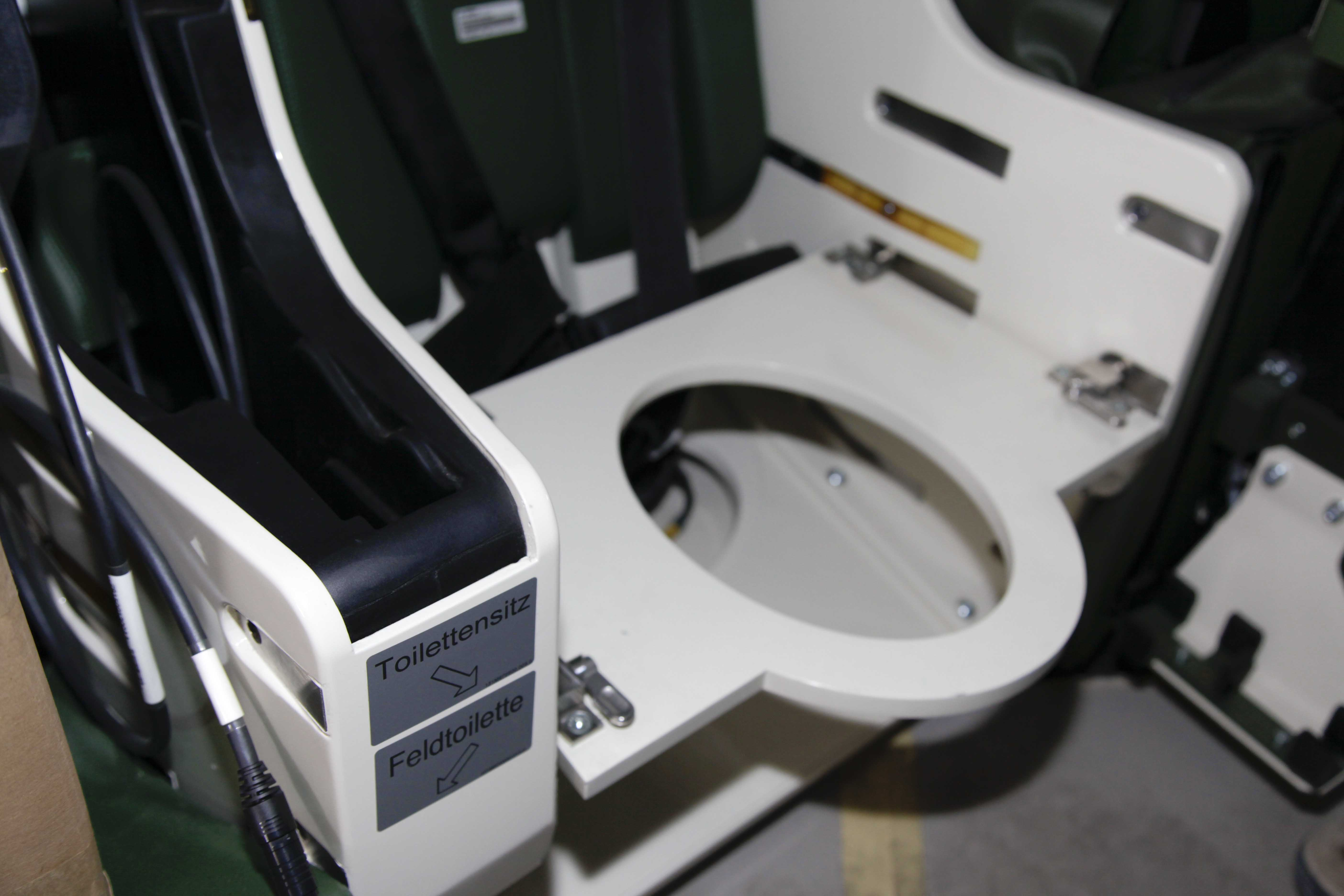 110702-O-XXXXK-005 MAZAR-E-SHARIF, Afghanistan. (July 28, 2011) The first German Army Boxer Armored Transport Vehicles deployed to Northern Afghanistan arrive at Camp Marmal, International Security Assistance Force, Regional Command North. The Boxer is equipped with modern optics and remote-controlled weapons stations and provides improved protection to its crews. The Boxer is also equipped with a crew toilet as seen here. (RC North Public Affairs photo by Tech. Sgt. Florian Krumbach/Released)